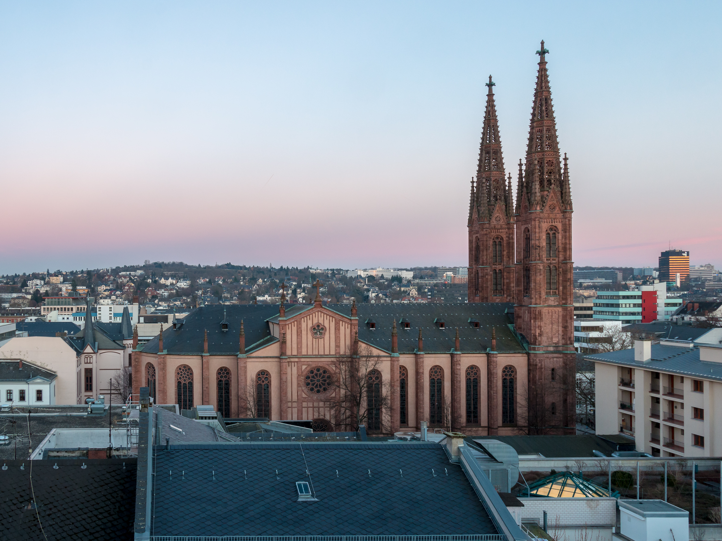 St. Bonifatius in Wiesbaden